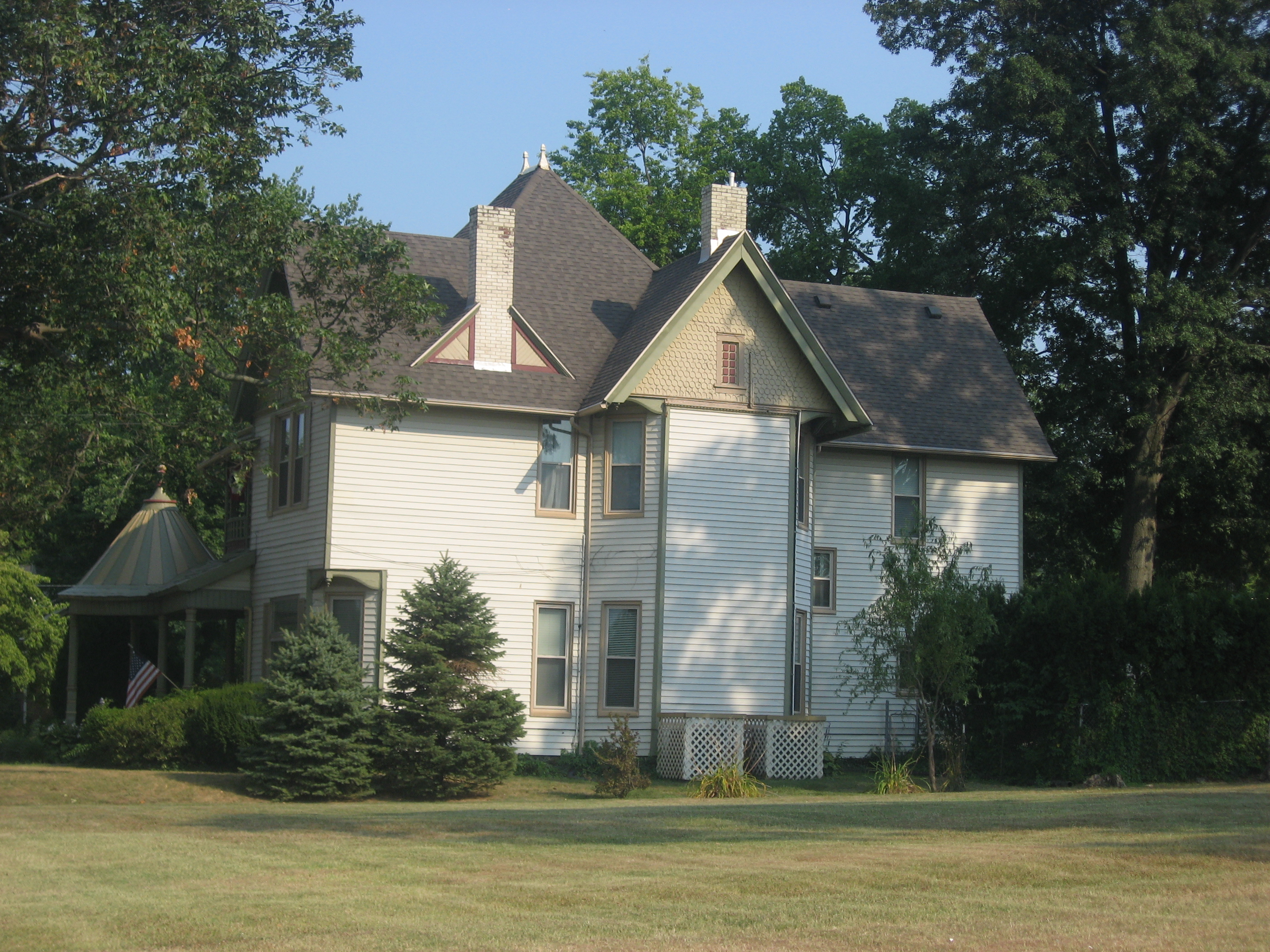 Western side and front of the J. Hawkins Hart House, located at 630 Center Street in Henderson, Kentucky, United States. Built in 1892, it is listed on the National Register of Historic Places, and it is part of a Register-listed historic district, the Alves Historic District.